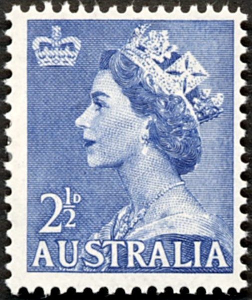 A postage stamp of Australia issued 1954